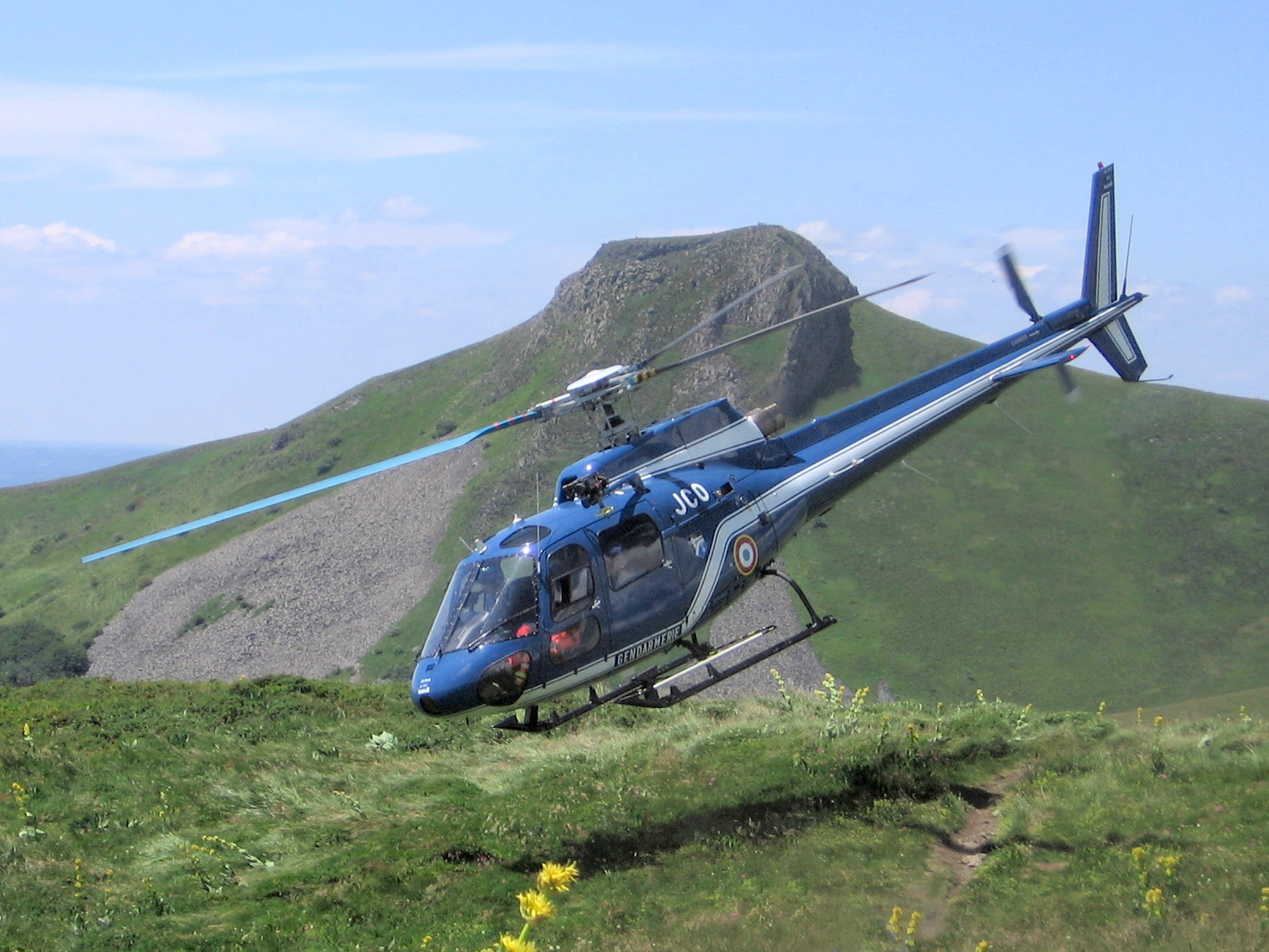 French Gendarmerie rescue helicopter taking off on the Massif du Sancy mountains (France). Helicopter type: Eurocopter AS 350 Écureuil (aka "Squirrel"). Camera: Canon Powershot A510, 3 Megapixels picture (cropped and edited)